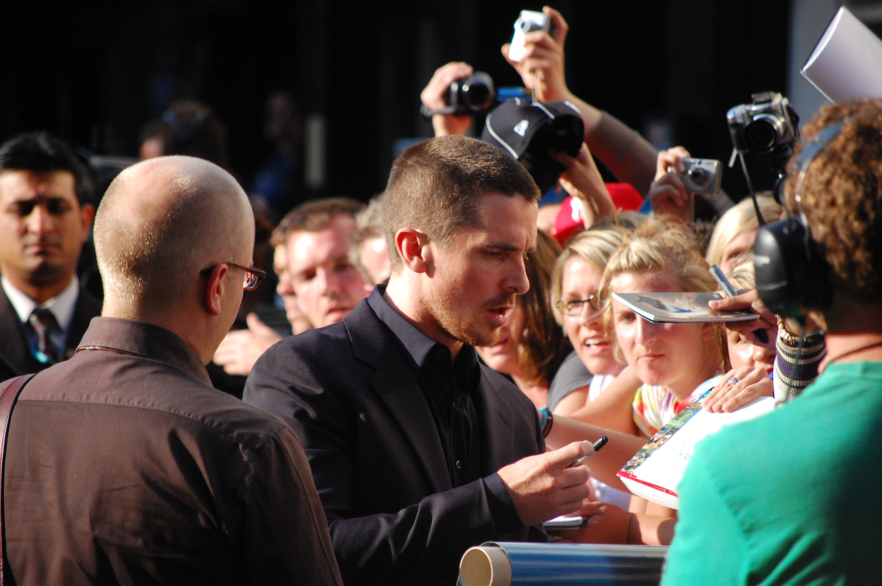 Christian Bale attending the European premiere of The Dark Knight.